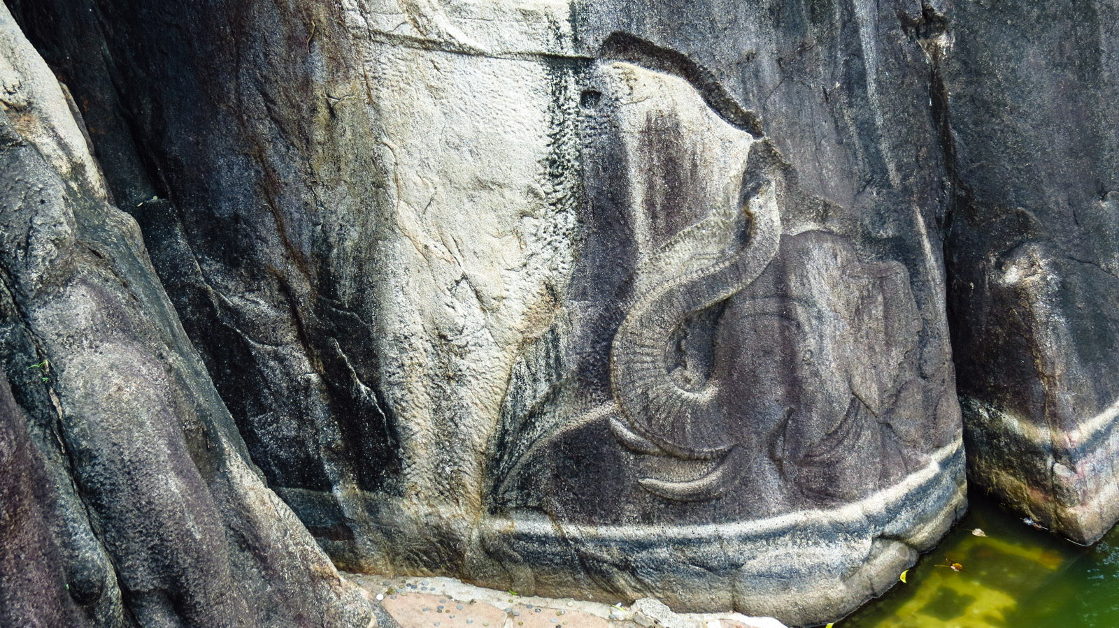 Elephant pond carving in Isurumuniya